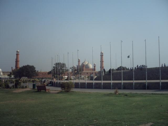 View of Badshahi Mosque from Iqbal Park. Picture taken by Pale blue dot on June 10, 2004.